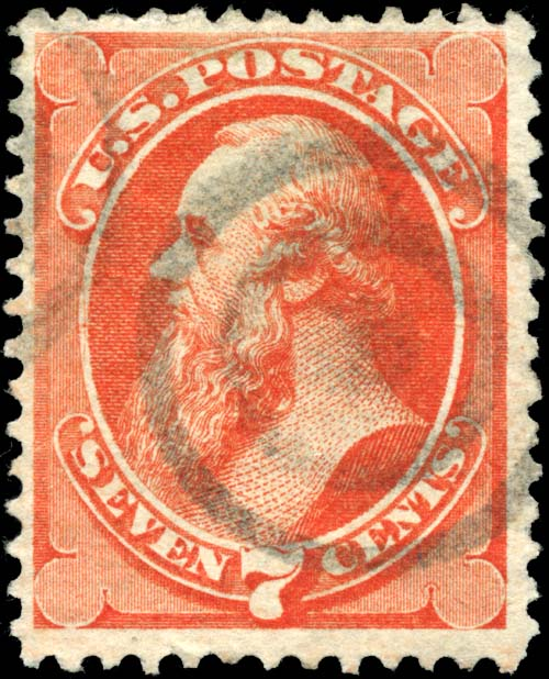 United States 7c stamp of 1873 with secret mark